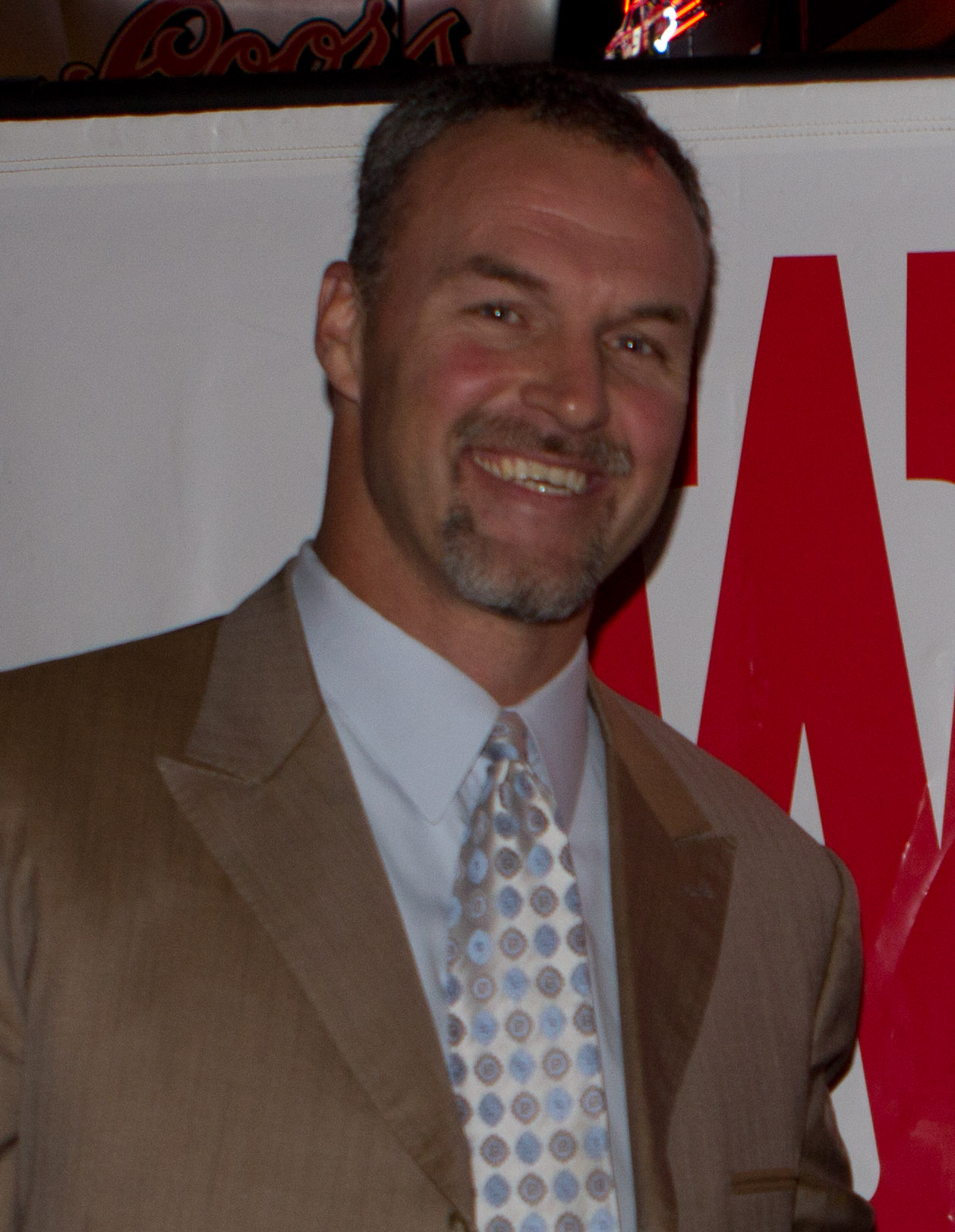 Picture of Mike Bartrum taken in Dec of 2010